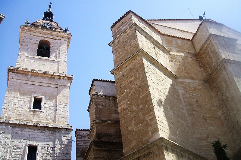 Catedral de Ciudad Real